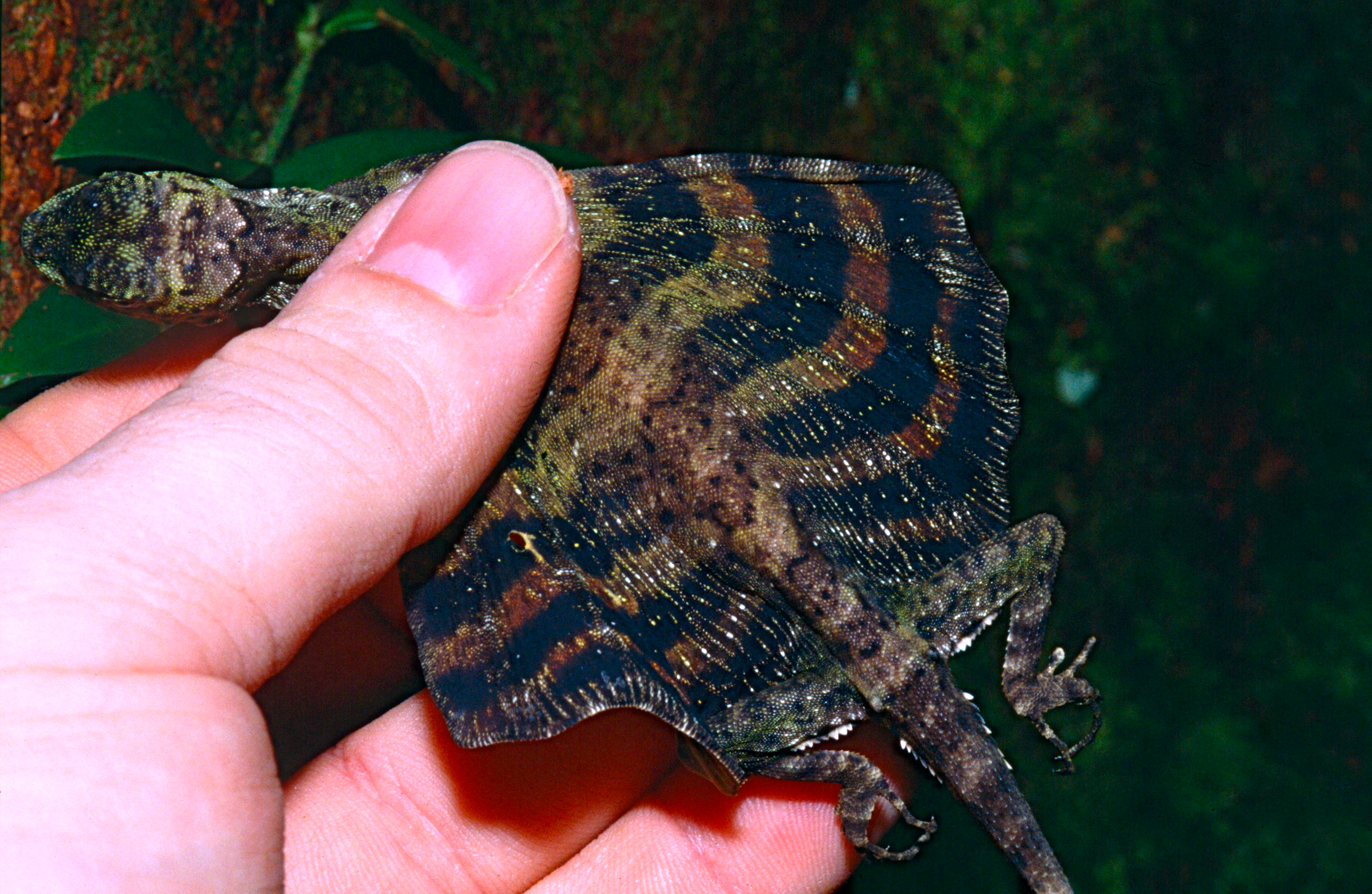 Bako NP, Sarawak, MALAYSIA Scanned slide from 2001